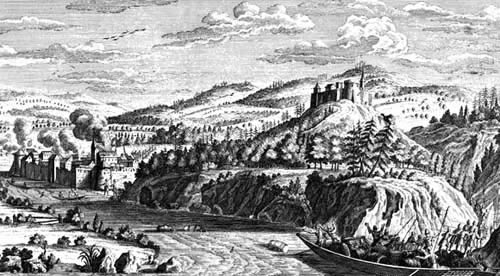 Glanzenberg, told to be destroyed in 1267 (Regensberger Fehde), nonhistorical illustration, 1715.